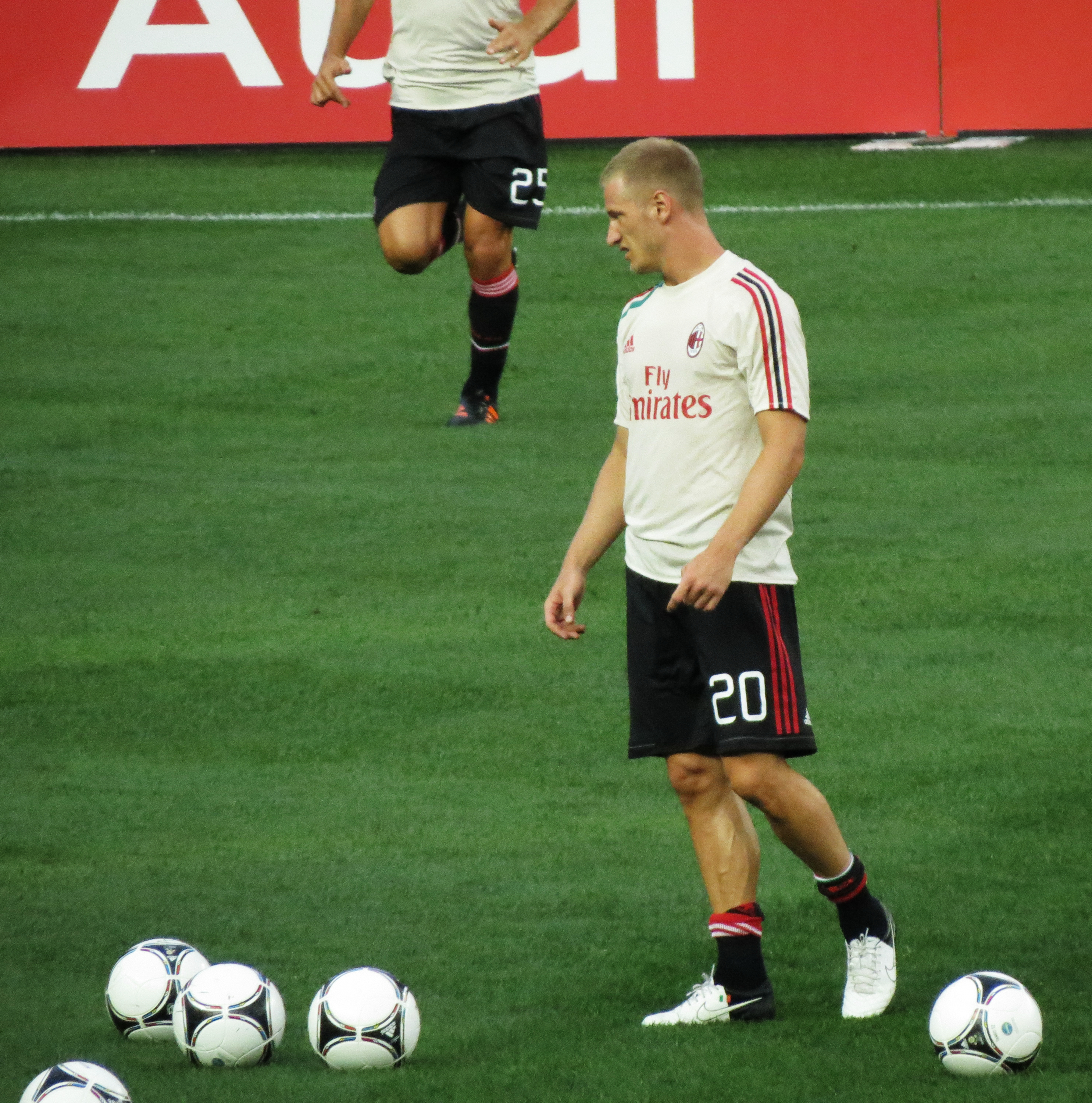 AC Milan's Ignazio Abate warming up before a match against Real Madrid.